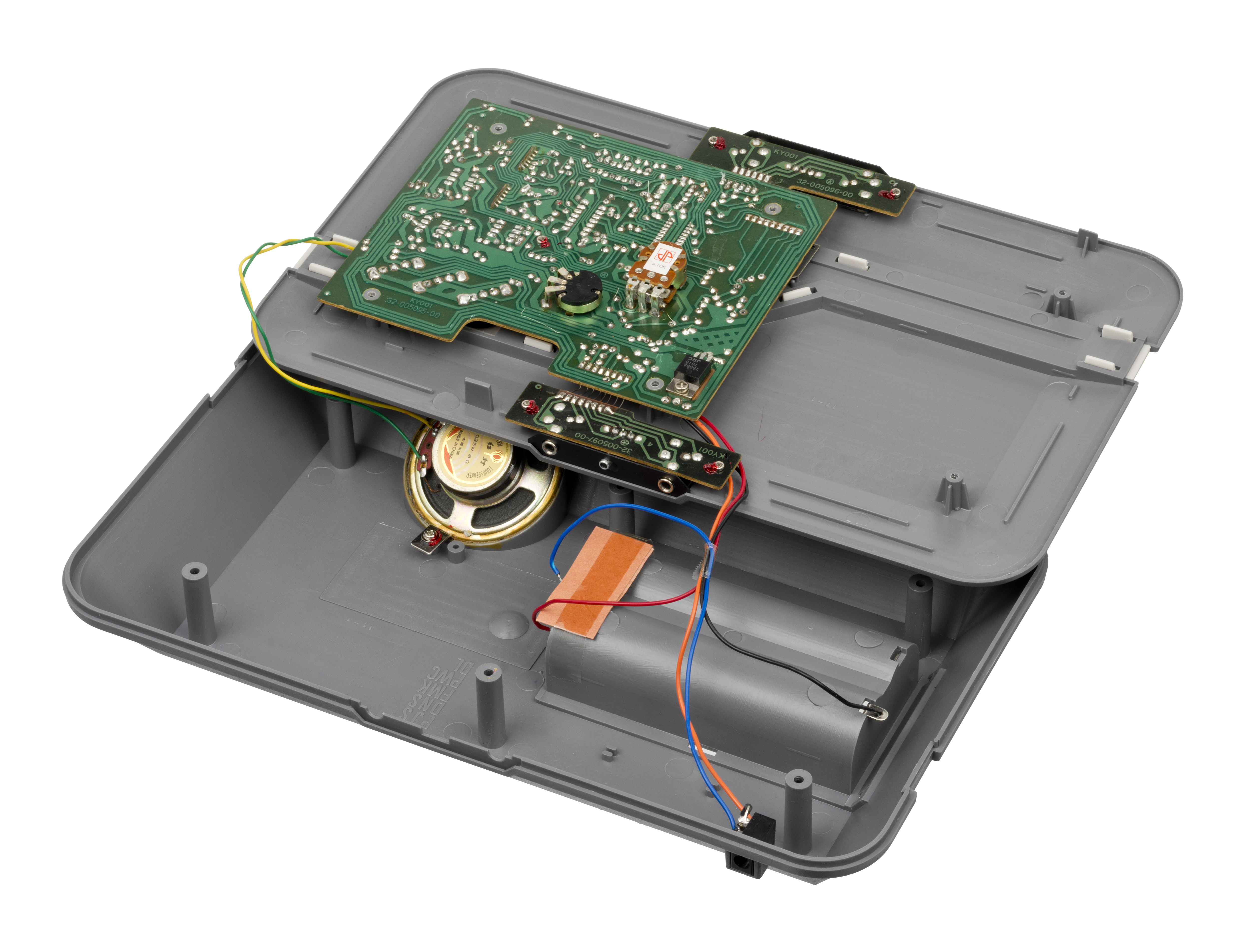 The inside of an Action Max video game console. Released in 1987 by Worlds of Wonder, it was a console that worked in conjunction with a VCR to play light gun "games". Games came on VHS tapes and were on-rails shooters that featured no real interactive elements. The console merely kept track of how many hits were scored during the game, utilizing an external red light to alert players to successful hits.